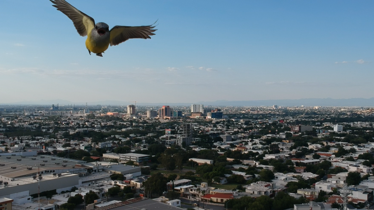 Great Kiskadee Pitangus sulphuratus constantly flying stright at the drone in this region, no contact is made between the bird and the drone.